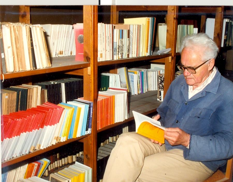 Czech composer Zdenek Sestak in 1997